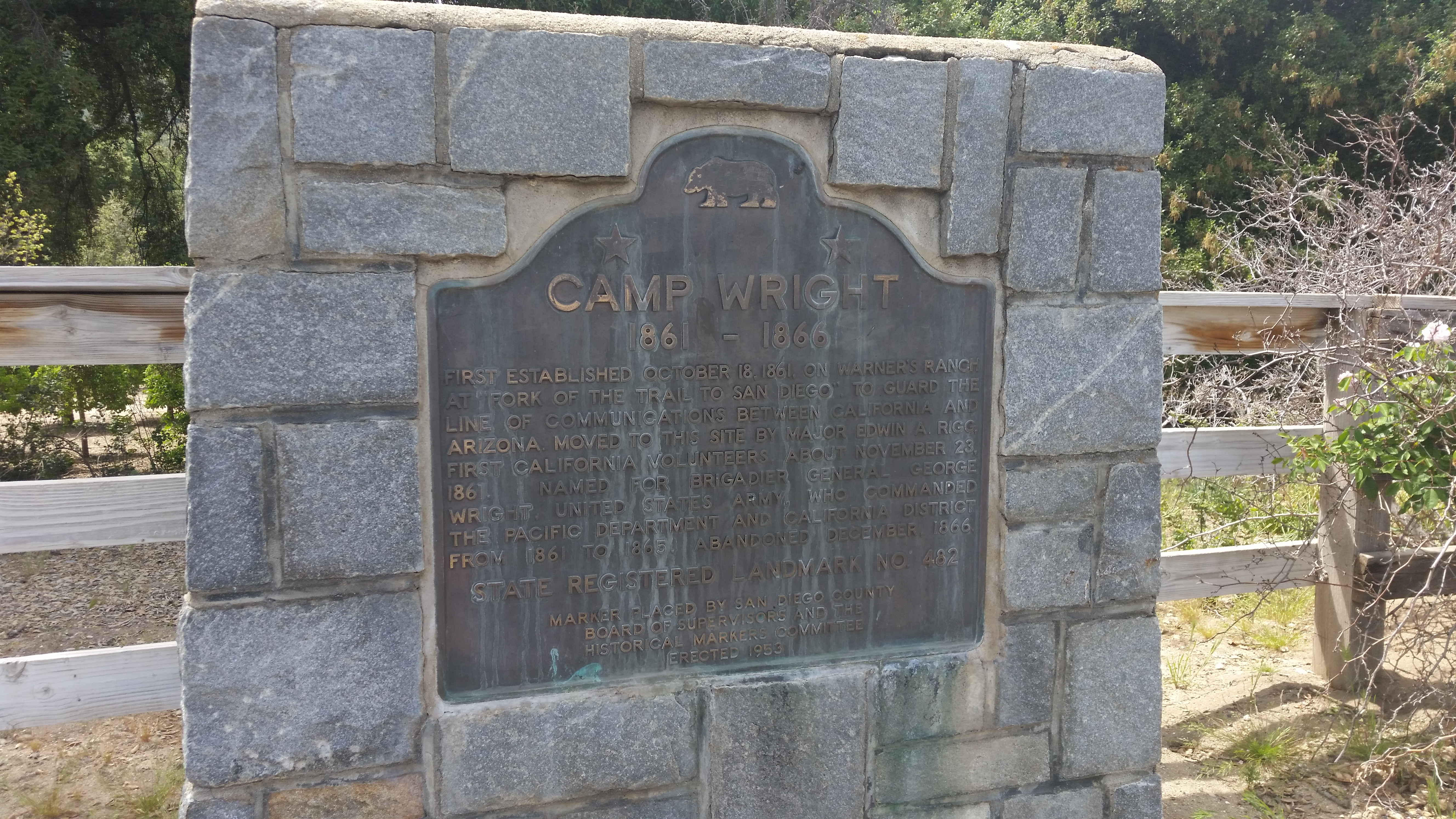 Historical marker marking Camp Wright, east of Oak Grove Butterfield Stage Station